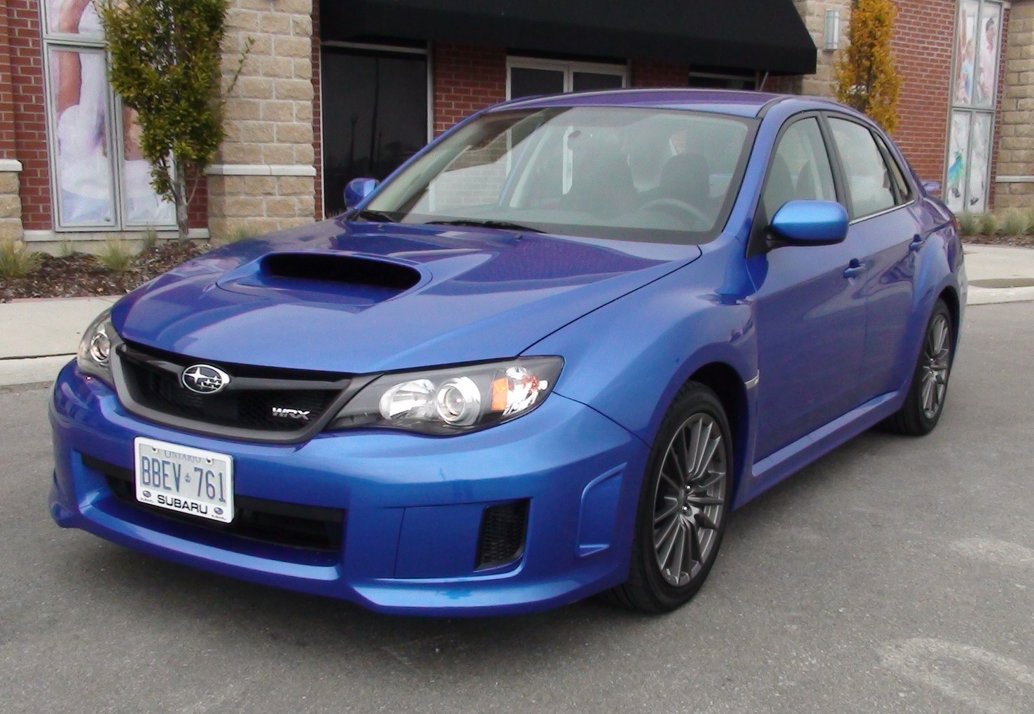 From Tino Rossini's Reviews.